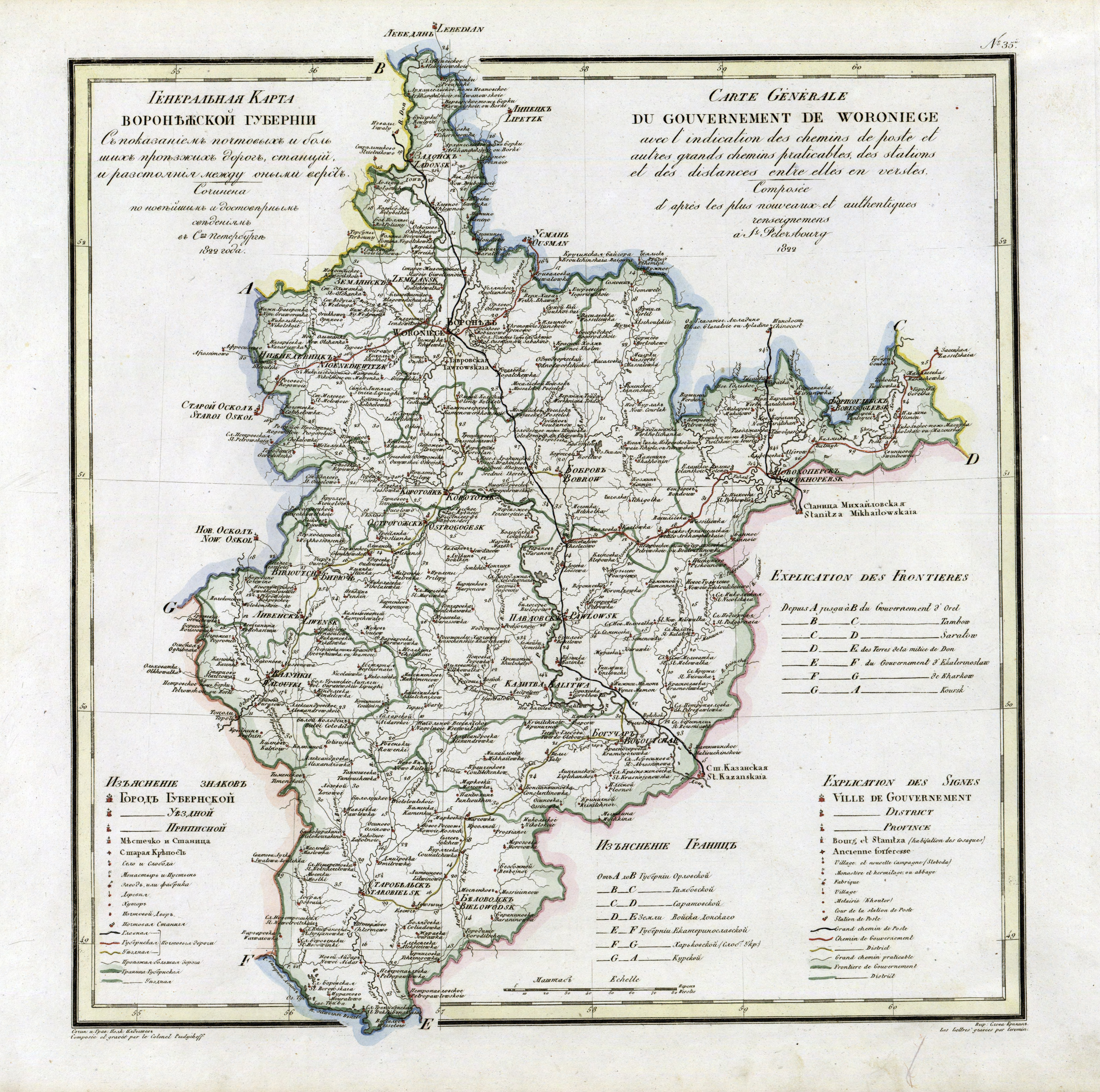 Voronezh Governorate map from atlas of the Russian Empire (1821)